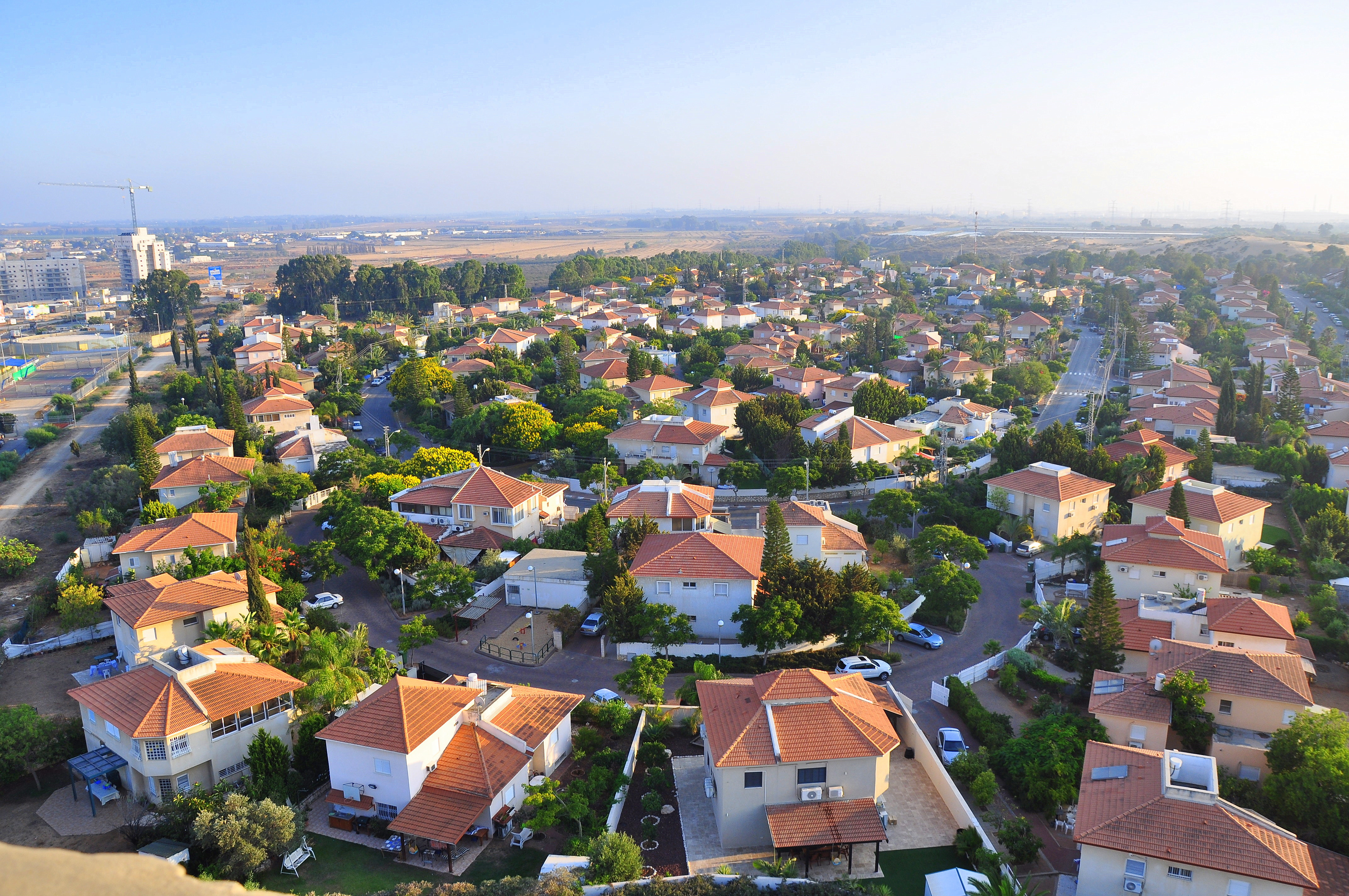 Southern view from Yavne's water tower